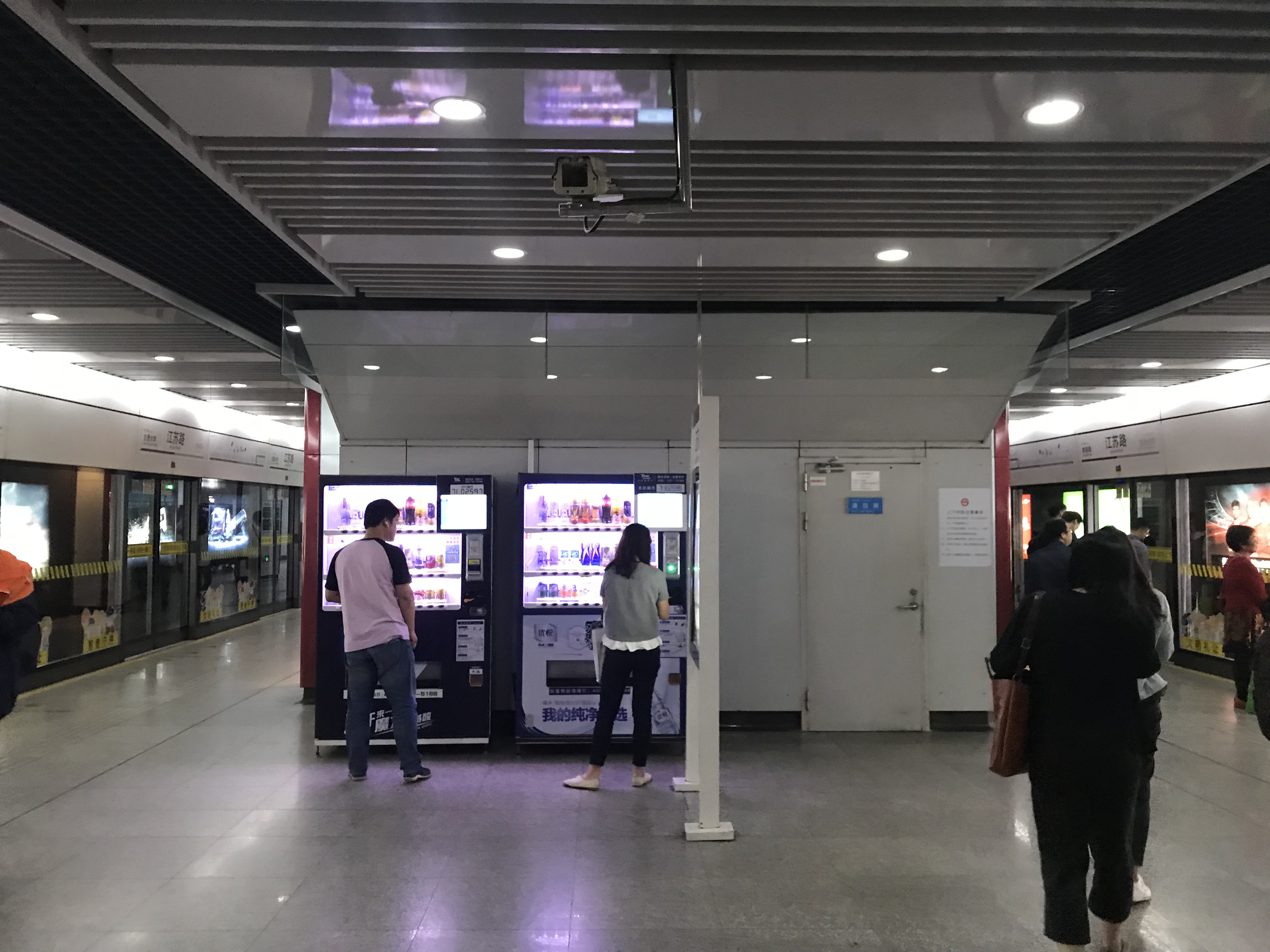 201805 L11 Platform of Jiangsu Road Station